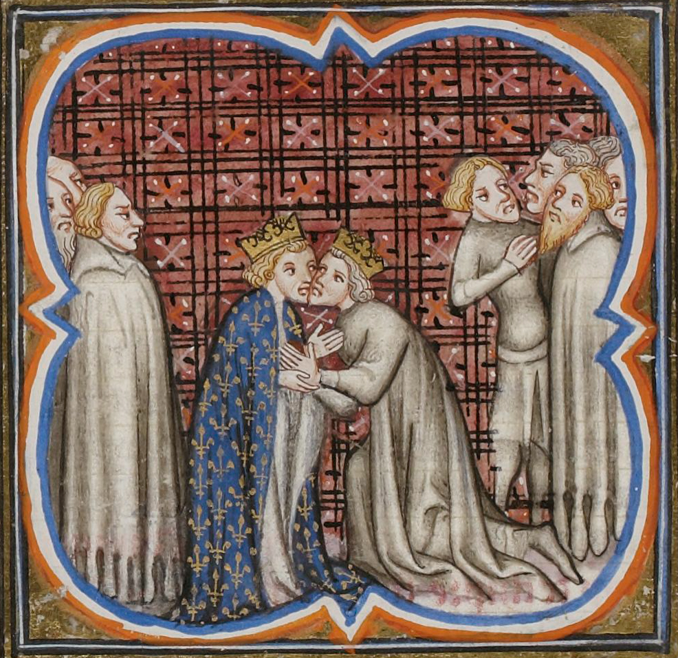 Edward I of England doing homage to Philip the Fair (1286)